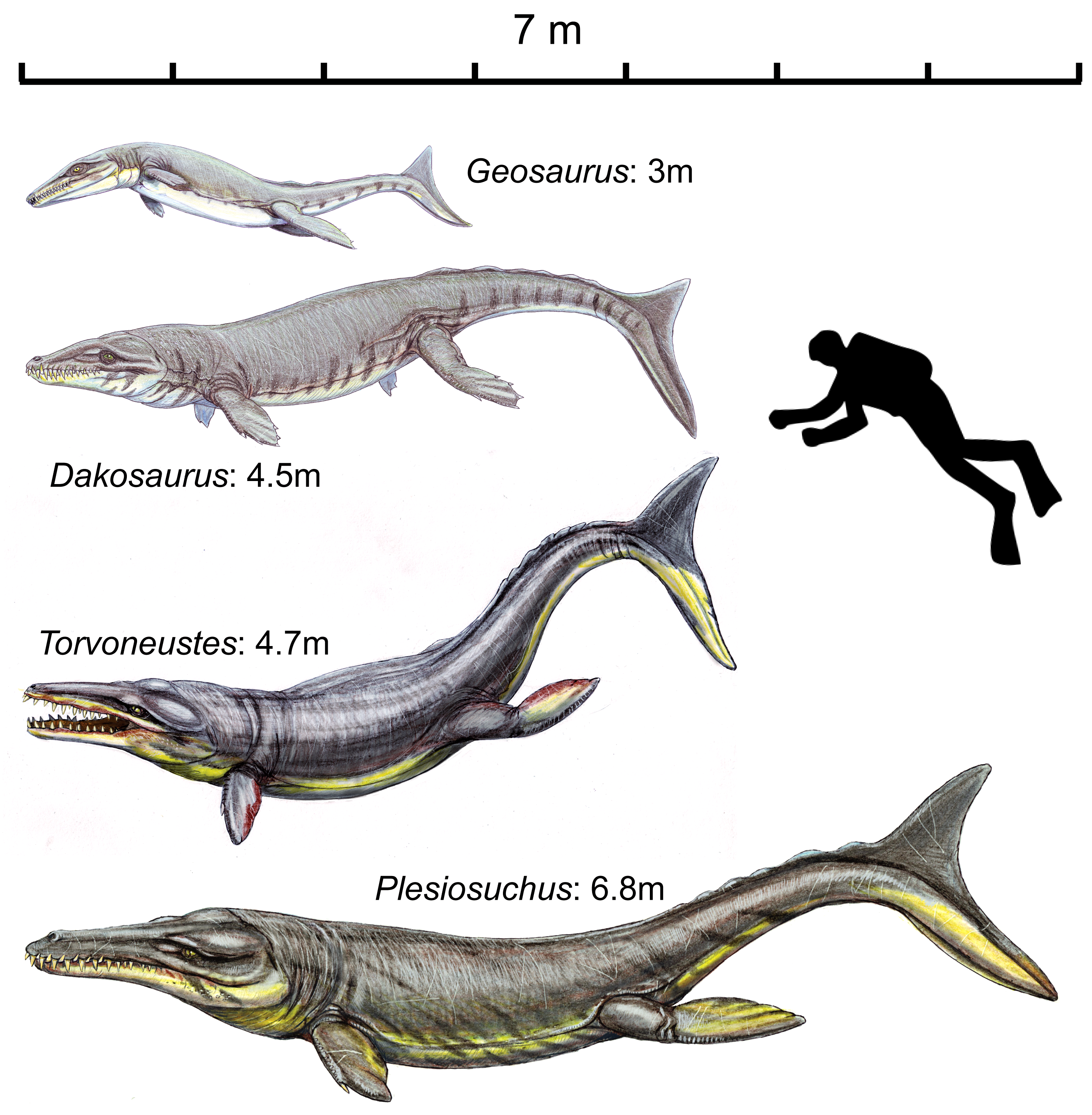 Life reconstructions showing the maximum body lengths for the four Geosaurini genera present in the late Kimmeridgian-early Tithonian of Western Europe. The species from top to bottom are: Geosaurus giganteus, Dakosaurus maximus, Torvoneustes carpenteri and Plesiosuchus manselii. The maximum known body lengths of Torvoneustes and Geosaurus are from Young et al. [14], while those of Dakosaurus and Plesiosuchus are from this paper. The human diver is 1.8 m in height. All metriorhynchid life reconstructions are by Dmitry Bogdanov.